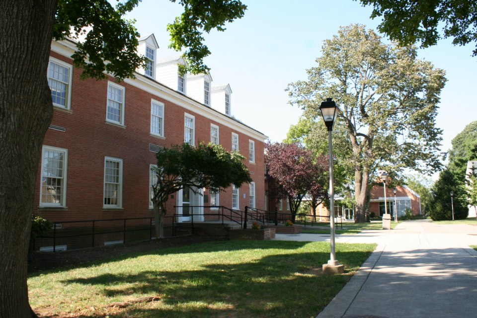 This picture was snapped at Maryland School for the Deaf in Frederick, Maryland. This is a picture of the Ely Building.